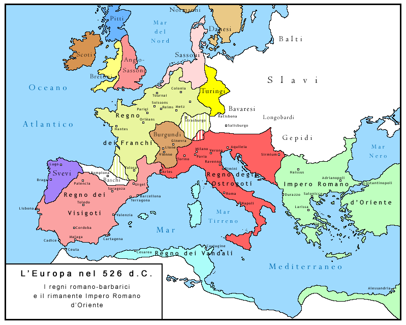 Europe in 526 AD. The Germanic kingdoms.